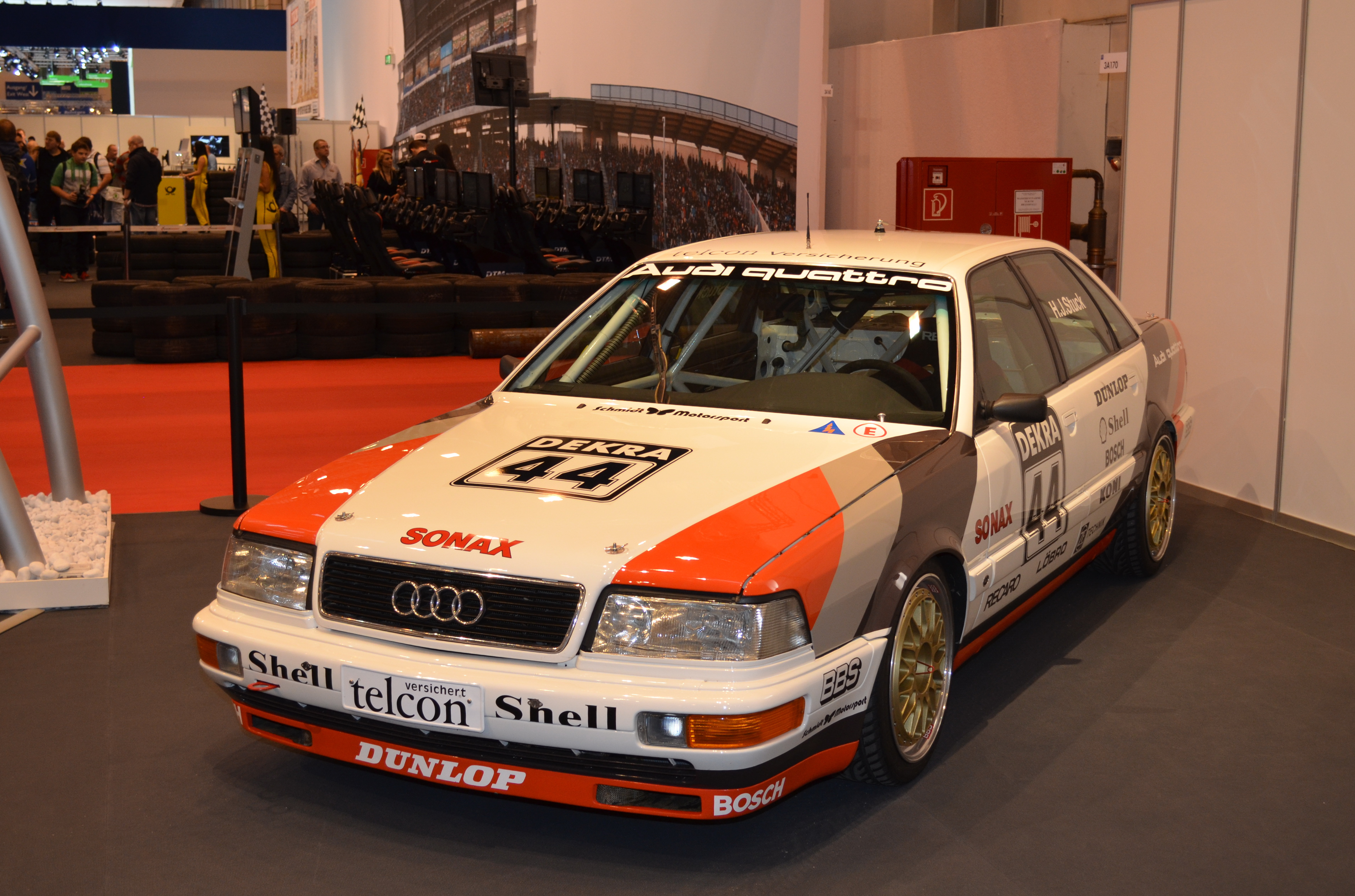 Motorshow_Essen_2013-11-30 10-56-25